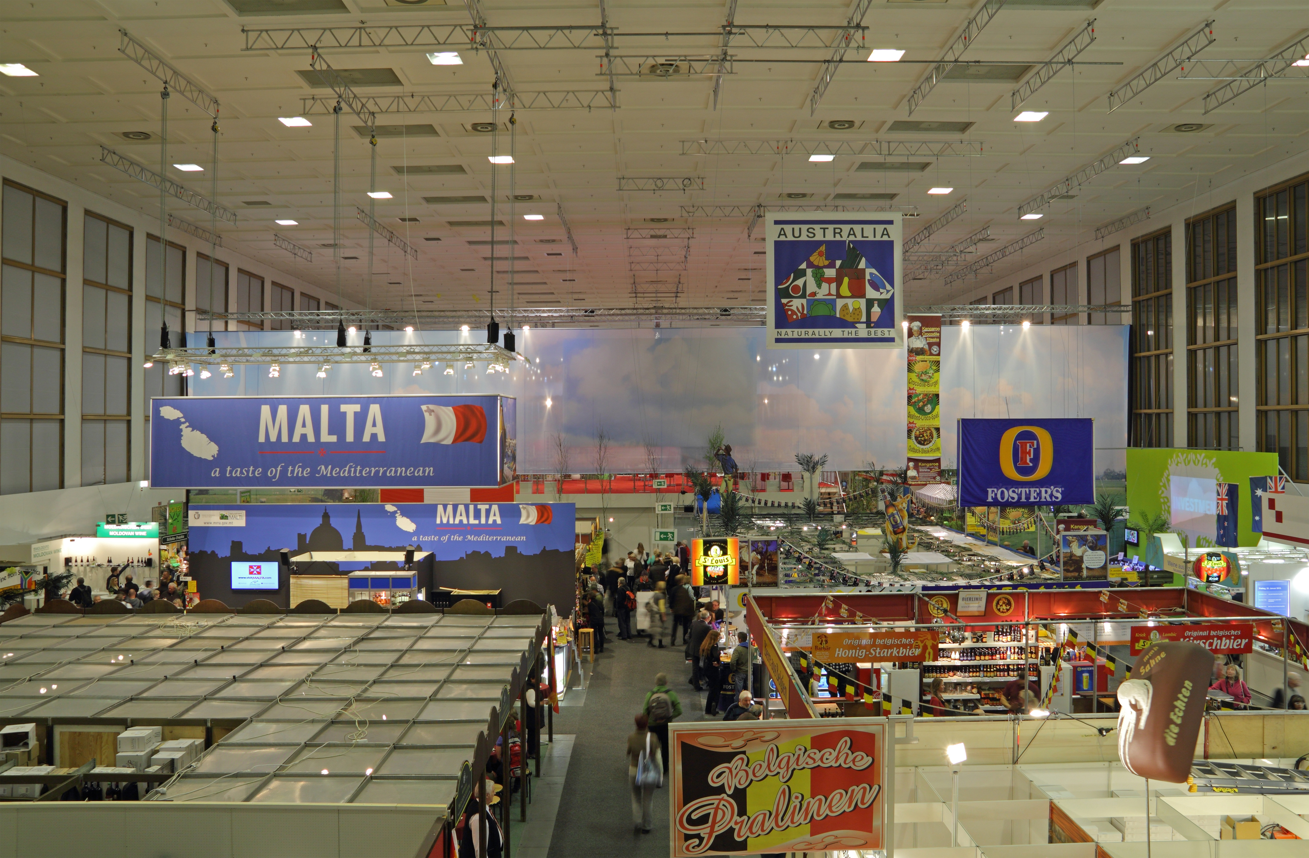 Berlin International Green Week in January 2013